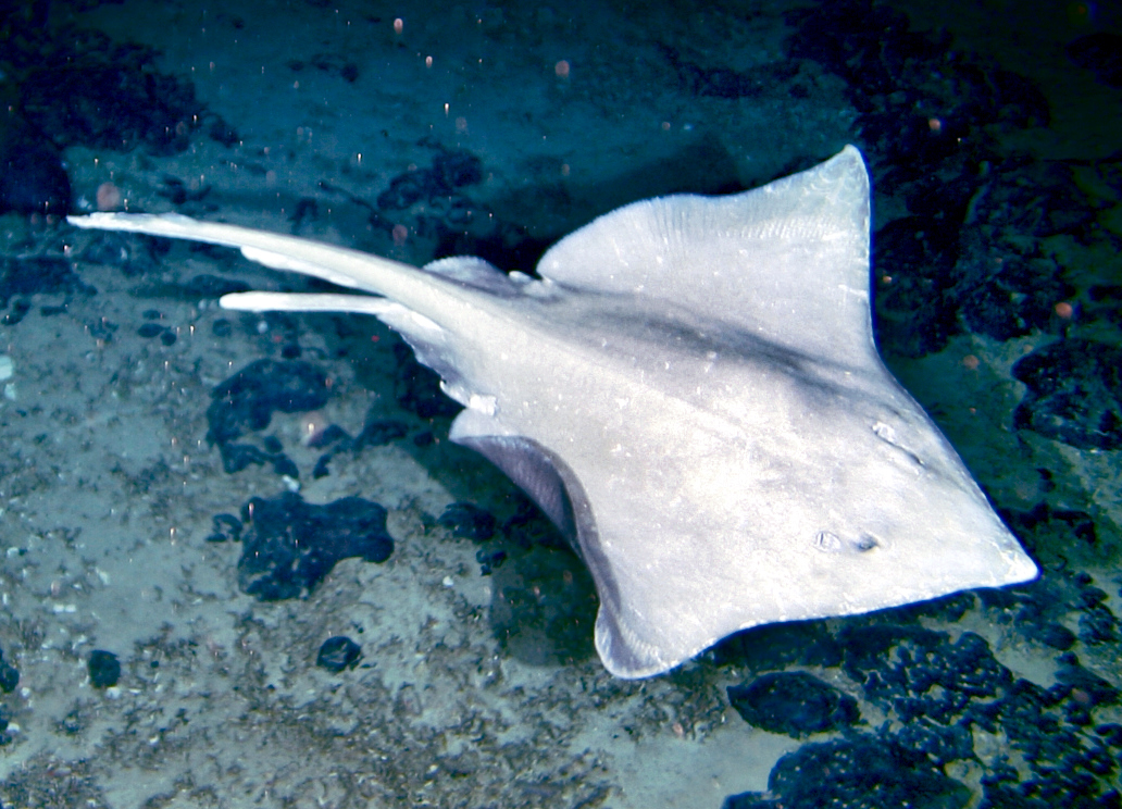 In 2008, researchers from CSIRO's Wealth from Oceans Flagship team discovered hundreds of new marine species and dozens of undersea mountains, in a project to monitor the Commonwealth Marine Reserve Network off southern Tasmania. The remarkable findings were made during surveys of the Tasman Fracture and Huon Commonwealth Marine Reserves, about 100 nautical miles off the coast of southern Tasmania. In total, 274 species new to science were brought to the surface and analysed, along with 86 species previously unknown in Australian waters and 242 previously studied species. The sophisticated sonar equipment onboard also discovered 80 previously unknown seamounts, raising the total in the region to at least 144, which is easily the highest concentration in Australian waters. Scientists also discovered 145 new undersea canyons, raising the regional total to at least 276.